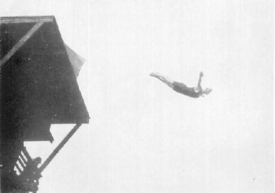 Toivo Aro competing in the plain and variety diving (10 metre platform) at the 1912 Summer Olympics